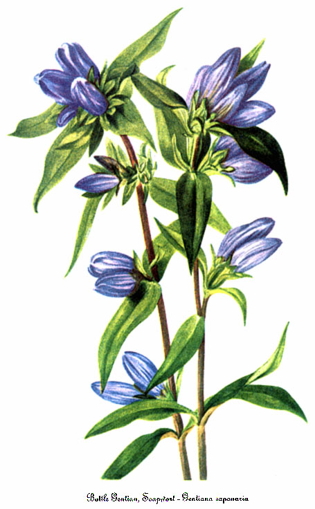 Watercolor painting of Gentiana_saponaria.